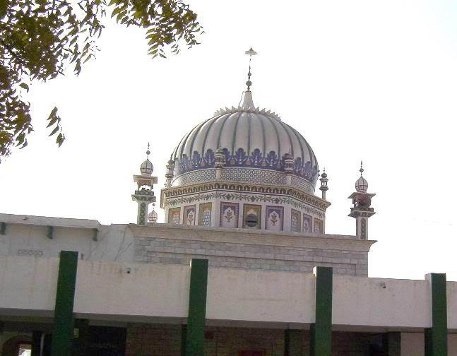 Shrine of Hazrat Baba Haji Sher Dewan Chawli Mashaikh This is a photo of a monument in Pakistan identified as the PB-P-212